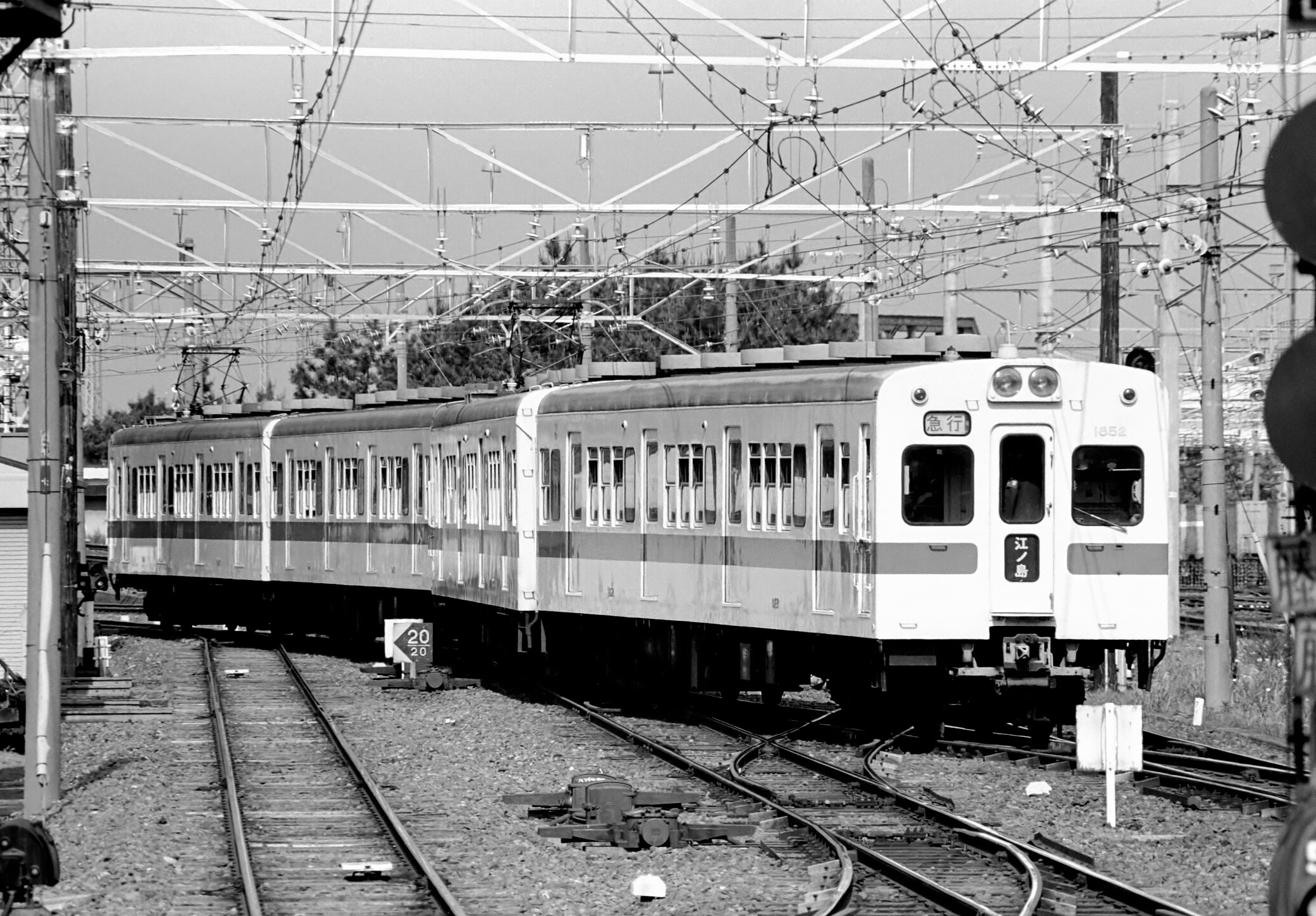 Odakyu Electric Railway 1800 series EMU on the express service bound for Katase-Enoshima at Fujisawa station.